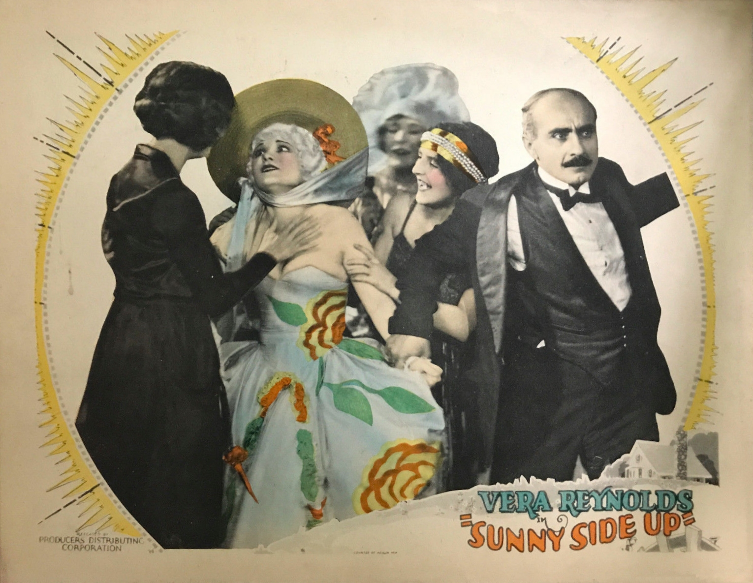 This is a lobby card for the 1926 American silent comedy film Sunny Side Up.